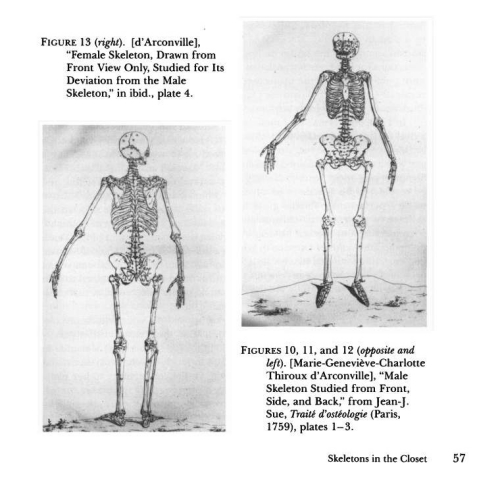 Female Skeleton, drawn from front view only, studied for its deviation from the male skeleton, and male skeleton studied from front, side and back